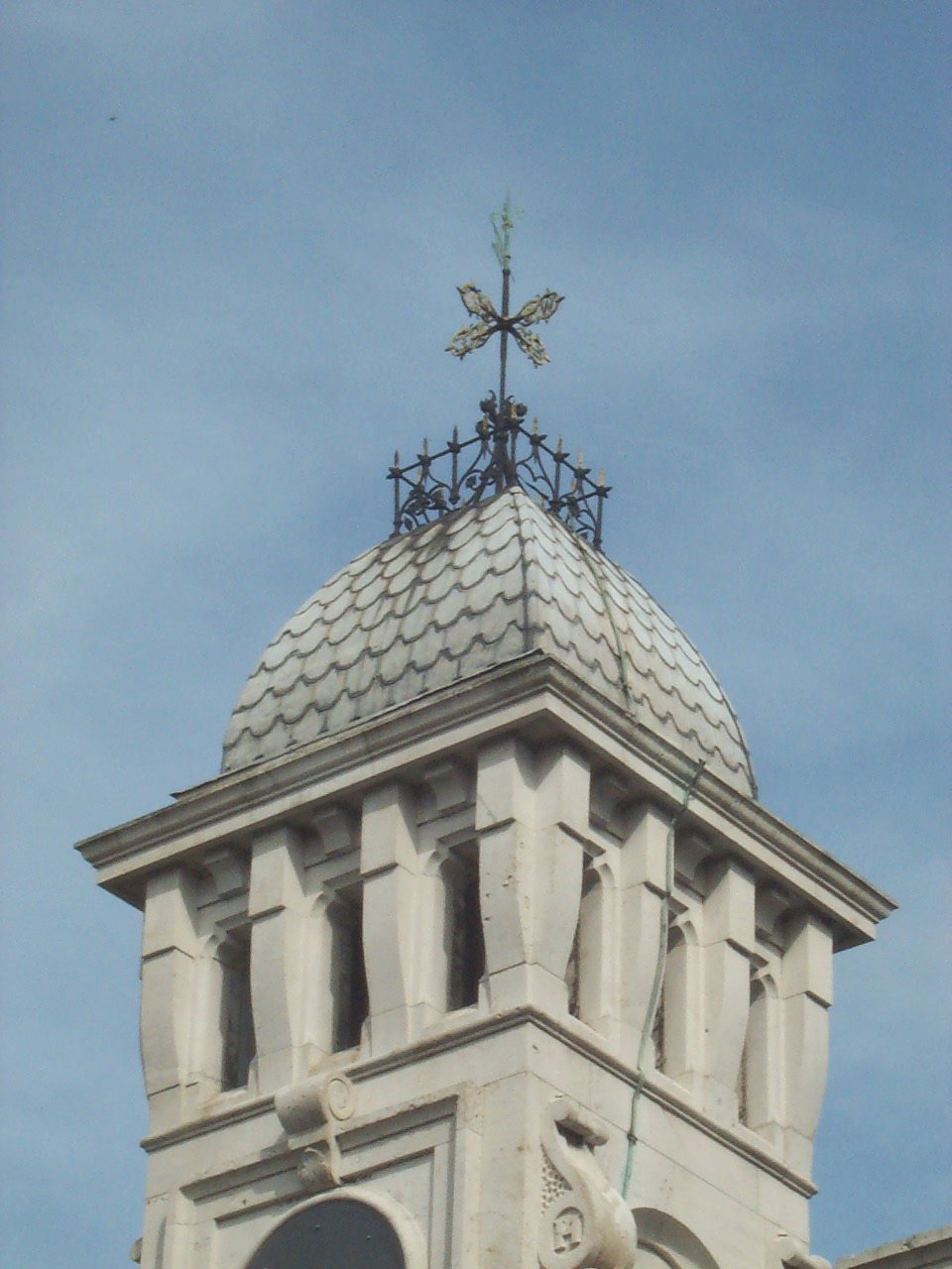 The top of Britannia Iron Works Gate surmounted by an intricate lightning rod and tiny weather vane. The earthing cable can be seen going down the right hand side. The gate now stands as an architectural feature and monument to Bedford's industrial Past (the town was an engineering center until the late 20th century and now has almost no industry of any kind). (View from the back of the gate.)